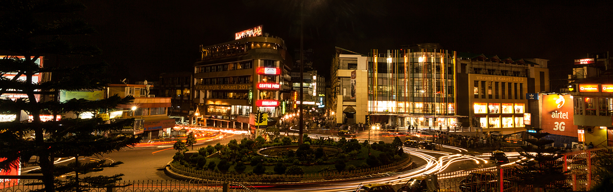 Shillong is the capital of Meghalaya, one of the smallest states in India and home to the Khasis. It is the headquarters of the East Khasi Hills district and is situated at an average altitude of 4,908